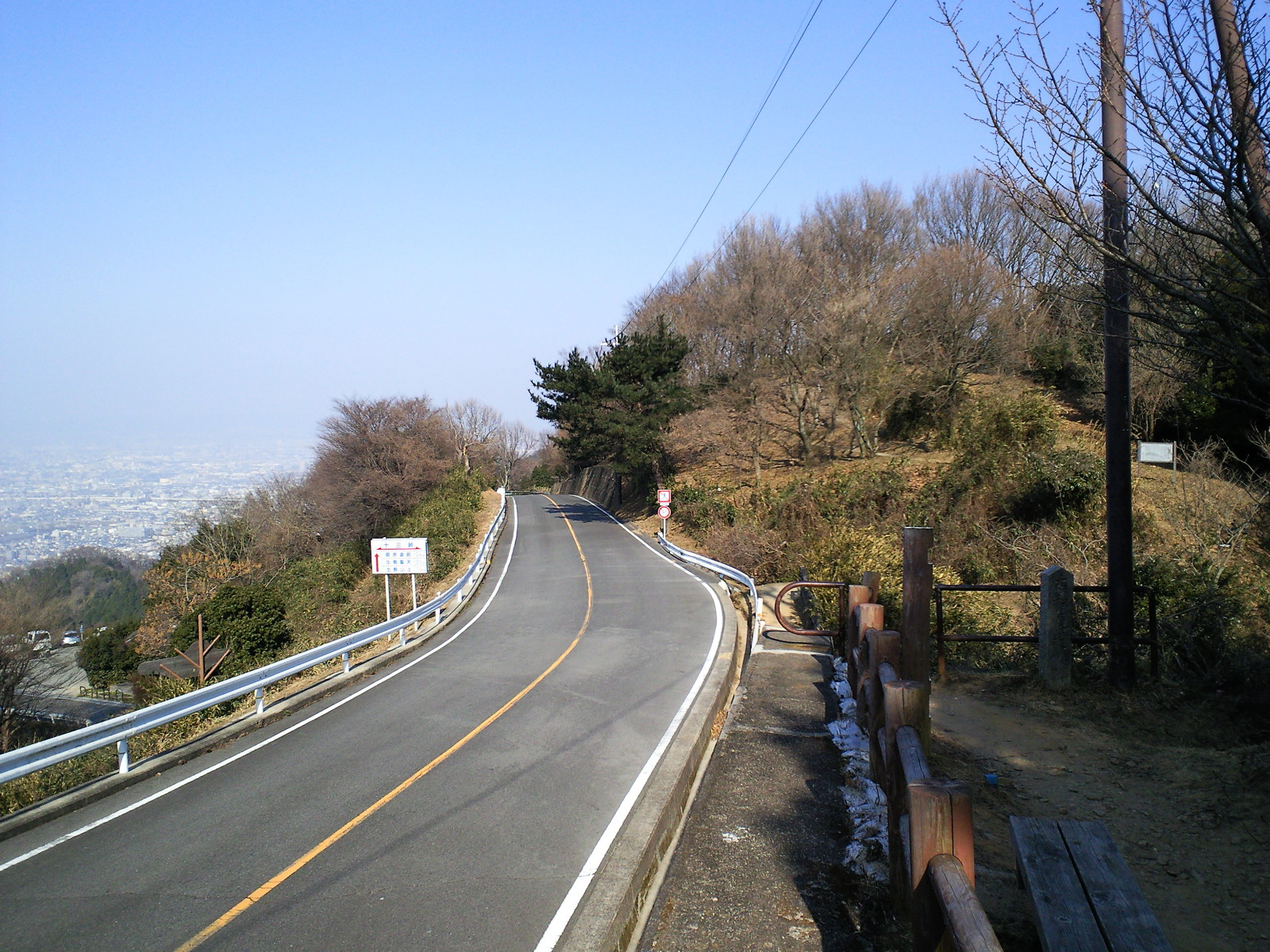 Jusan-Touge (Mountain pass) between Osaka Pref. and Nara Pref., Japan